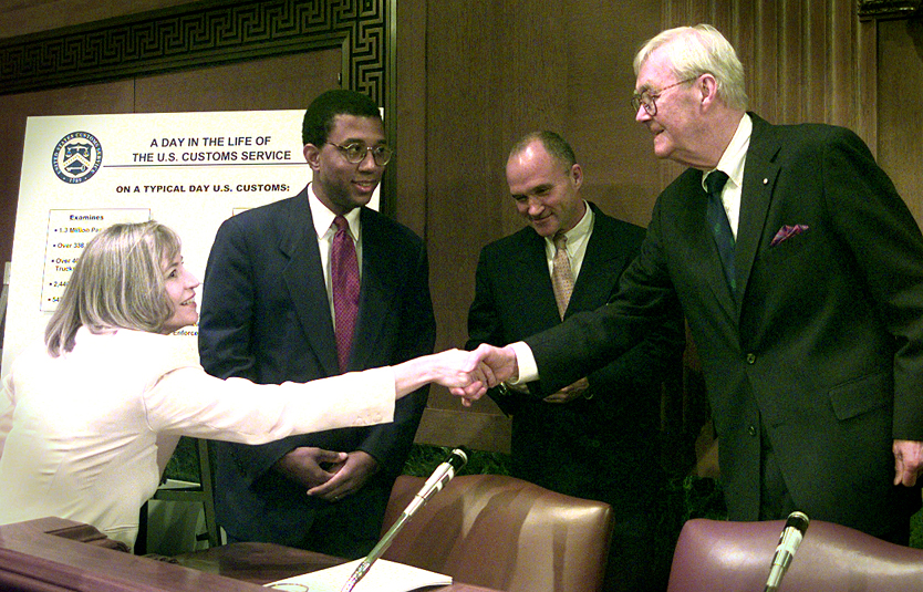 Assistant Secretary Nancy Killefer greets Senator Daniel Moynihan of New York prior to her testimony to the Senate Finance Committee, (center) Under Secretary James Johnson and Custom Commissioner Raymond Kelly. Testimony: Automated Commercial System and Modernization.